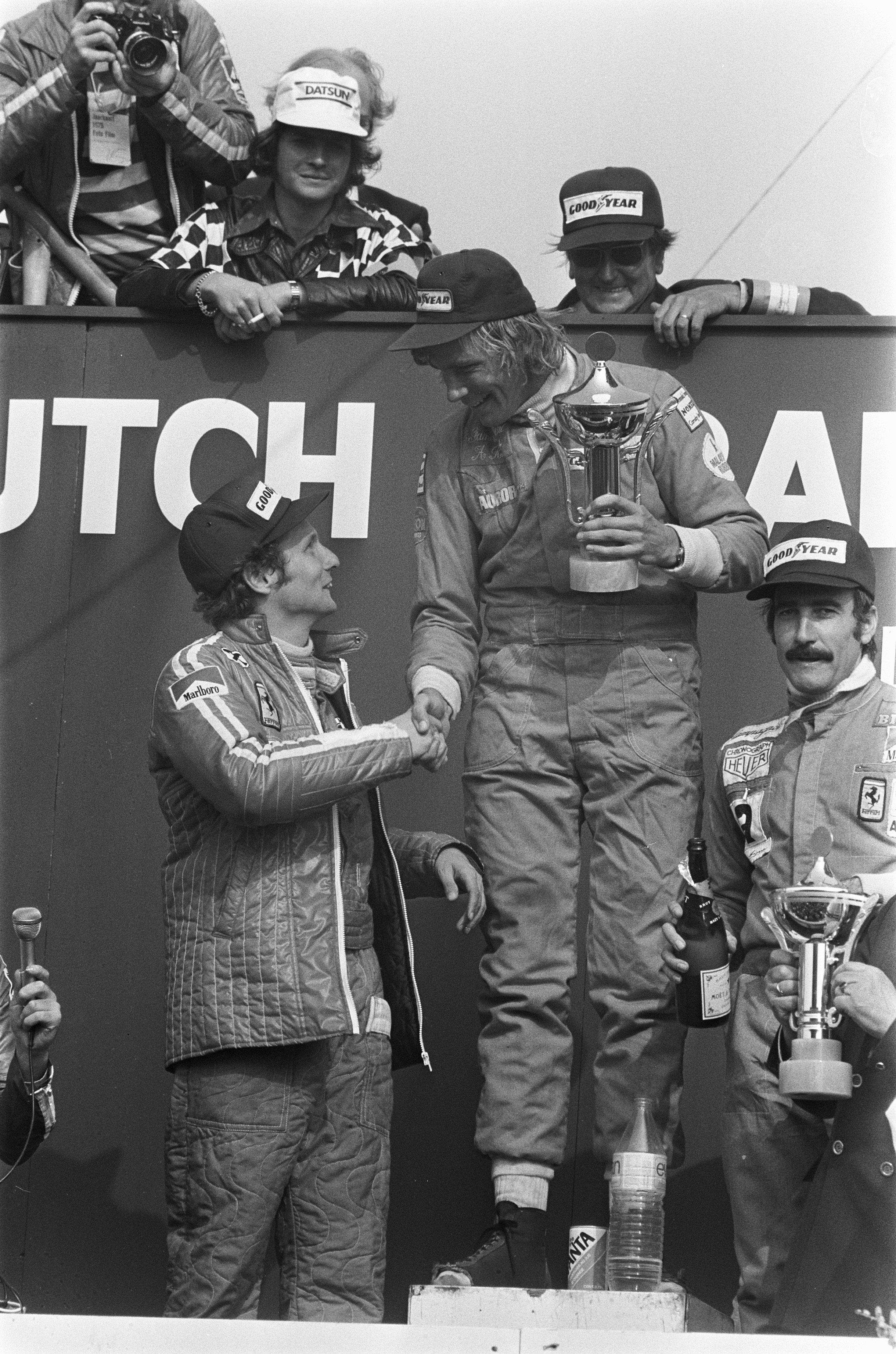 James Hunt shakes Niki Lauda's hand after winning the 1975 Dutch Grand Prix